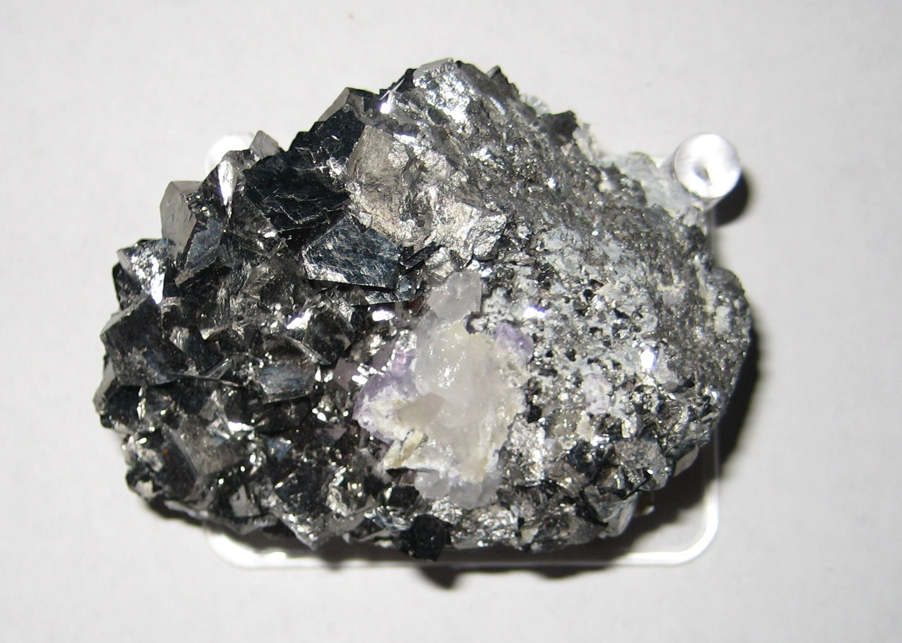 Arsenopyrite